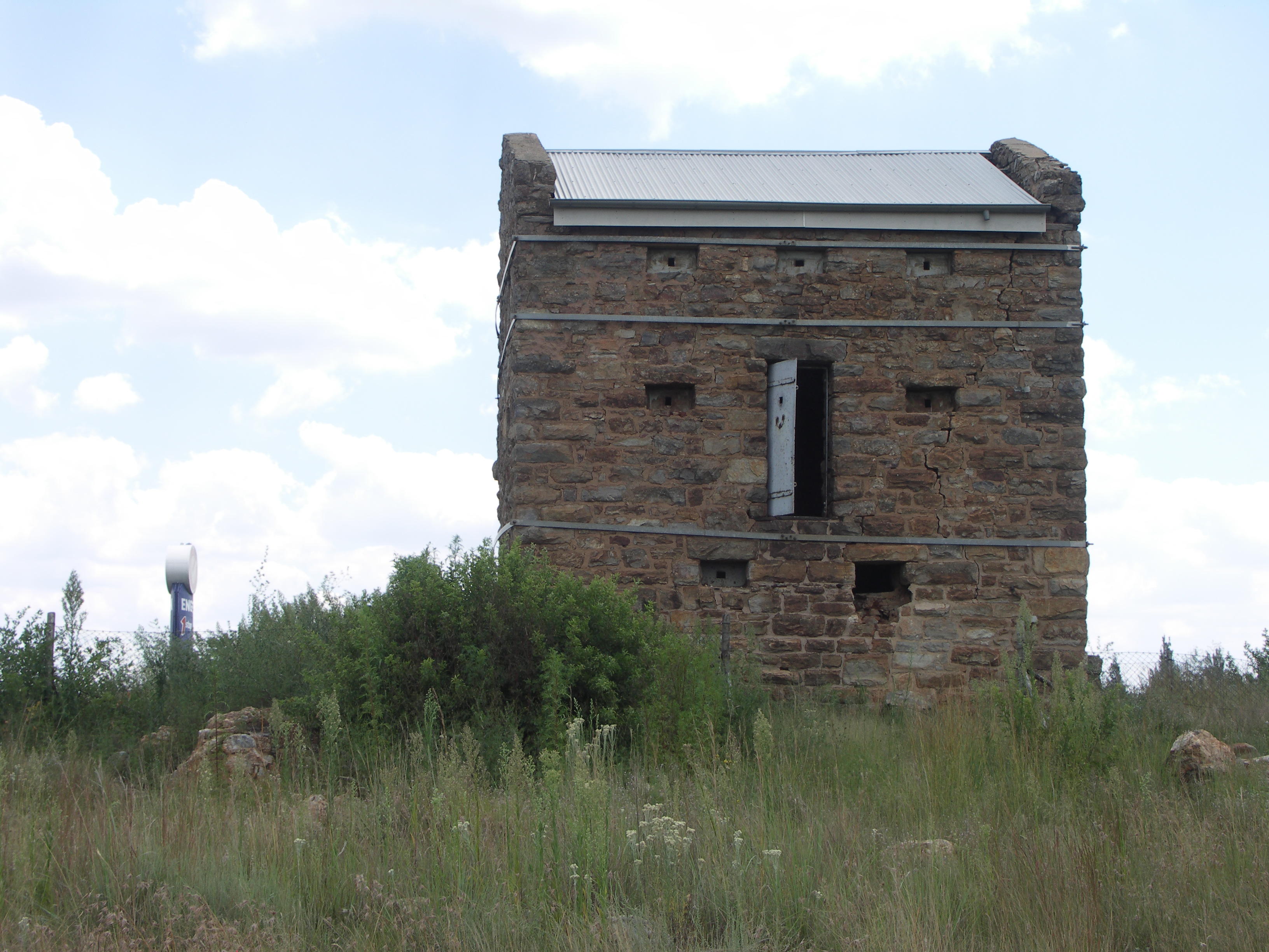 Witkop Blockhouse, just off the R59 between Johannesburg and Vereeniging, Gauteng, South Africa. To visit from Johannesburg, take the exit to the Engen Blockhouse One-Stop from the R59 South, keep to the left when entering the One-Stop and follow the short (50m) gravel road behind the One-Stop.